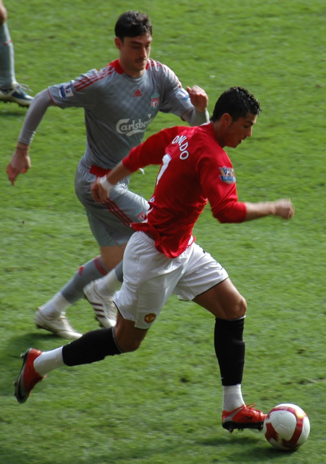 Cristiano Ronaldo in action during the Premier League match between Manchester United FC and Liverpool FC in Old Trafford (Manchester) on 14 March 2009.